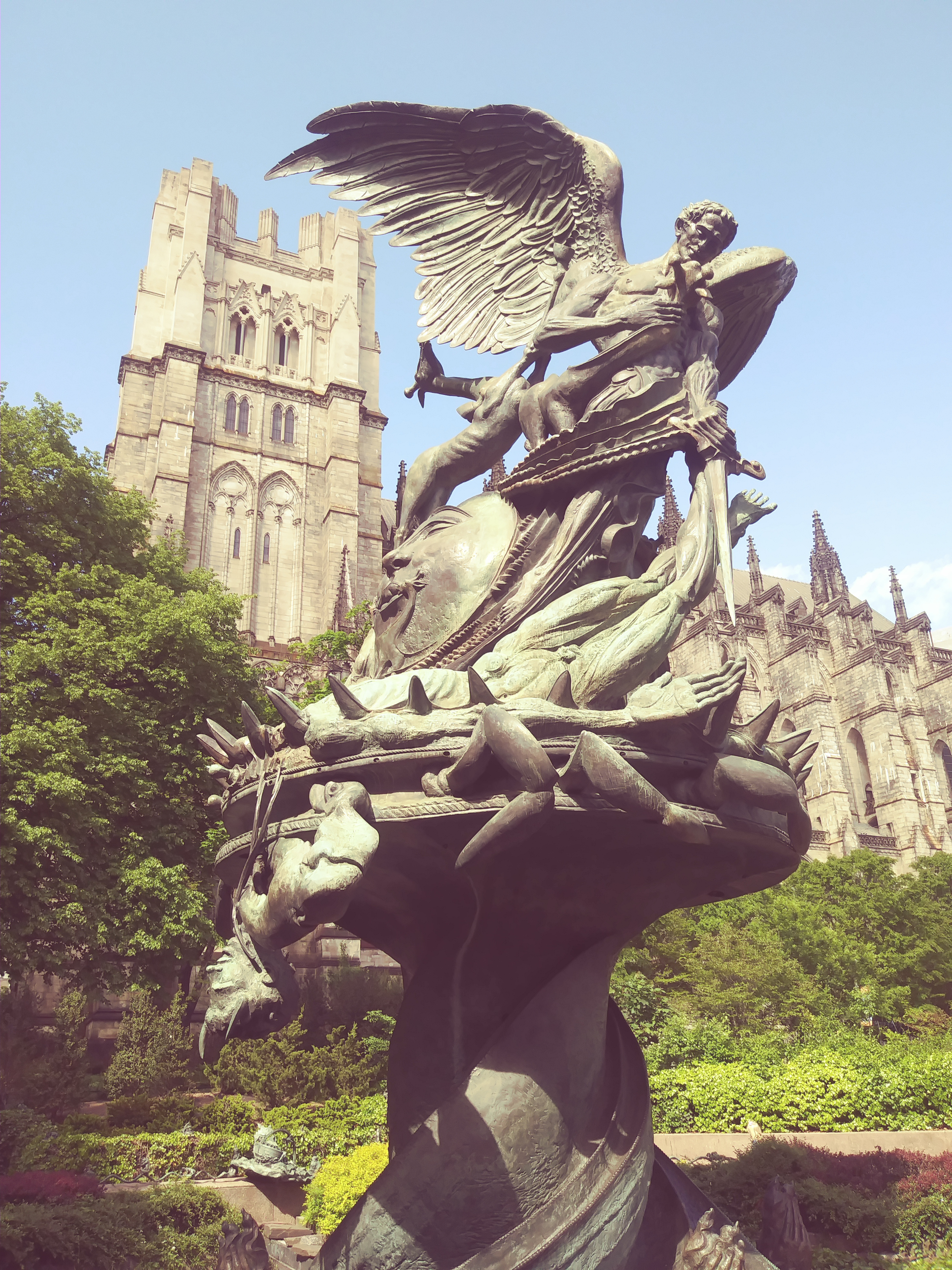 Episcopal Cathedral of Saint John the Divine (which is a New York City Designated Landmark), with Peace Fountain (a 40 foot sculpture with no actual water) in foreground, afternoon of May 16 2019